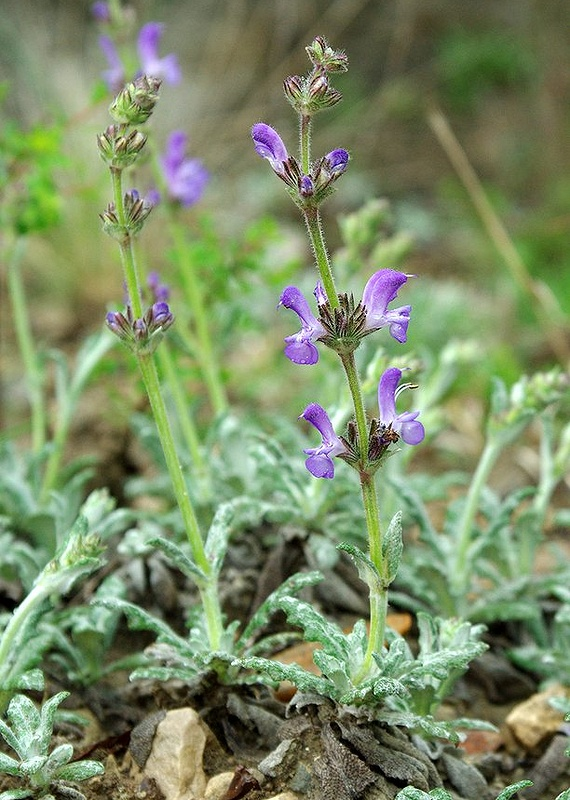 Salvia canescens near Gunib, Daghestan